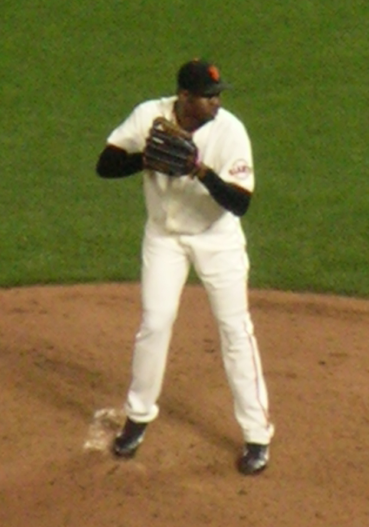 San Francisco Giants relief pitcher Guiellermo Mota at a home game against the Chicago Cubs. The Cubs won 8-6.